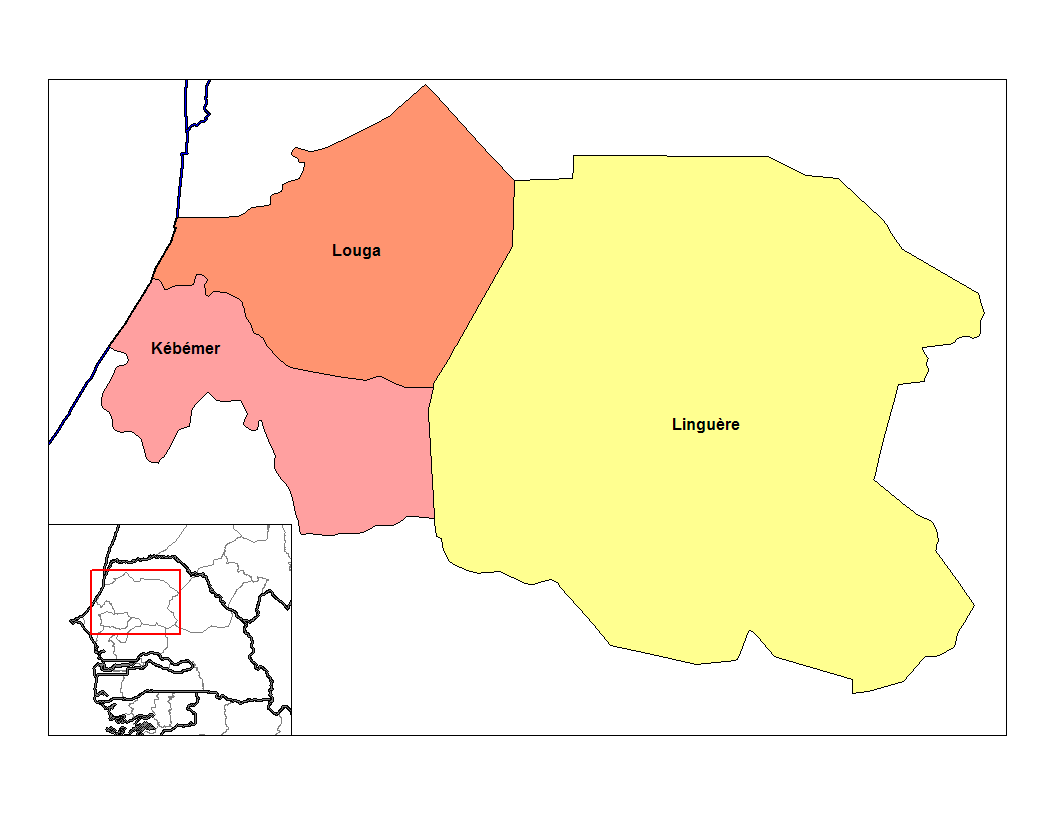 Map of the departments of Louga region in Senegal. Created by Rarelibra 22:31, 28 December 2006 (UTC) for public domain use, using MapInfo Professional v8.5 and various mapping resources.